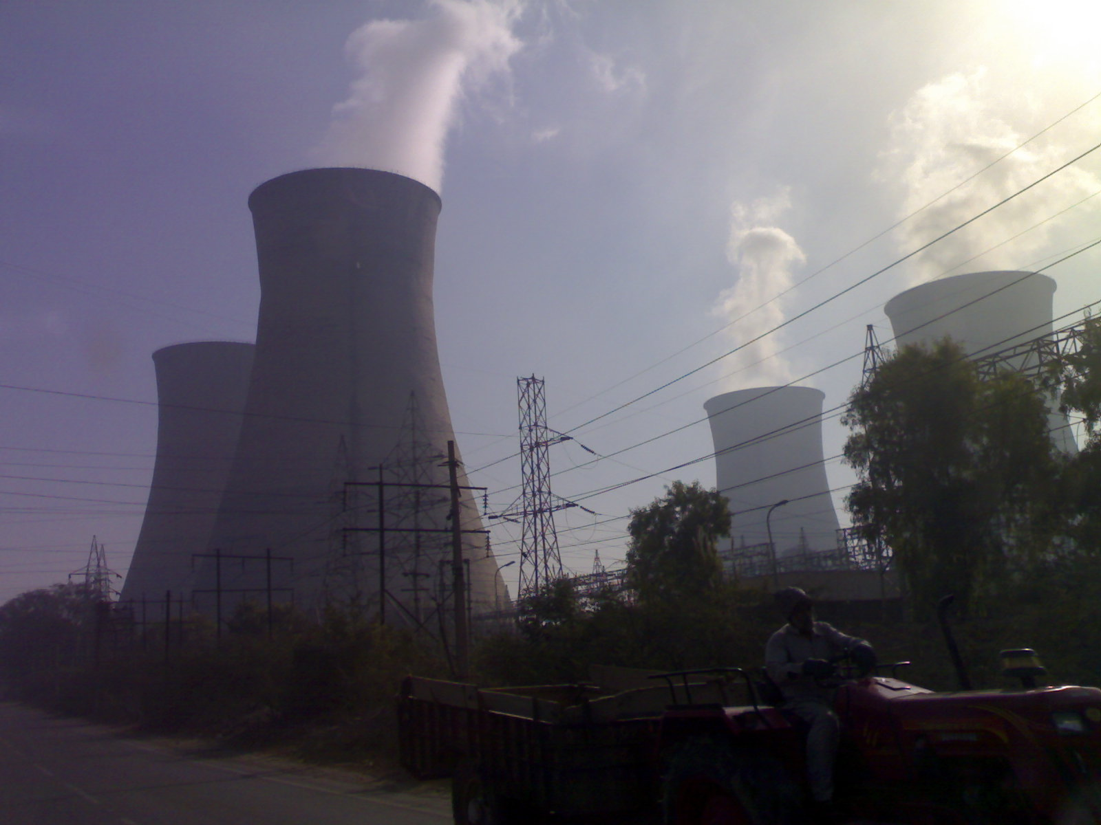 This photo is taken by me(user:Shemaroo,Sivender Singh ).In this photo you can view Bathinda thermal plant from National highway 15. Shemaroo (talk) 13:41, 23 January 2011 (UTC)